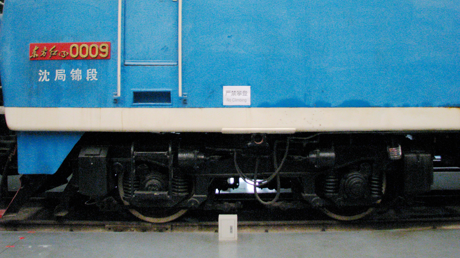 The bogie of China Railways DFH3 0009 diesel-hydraulic locomotive